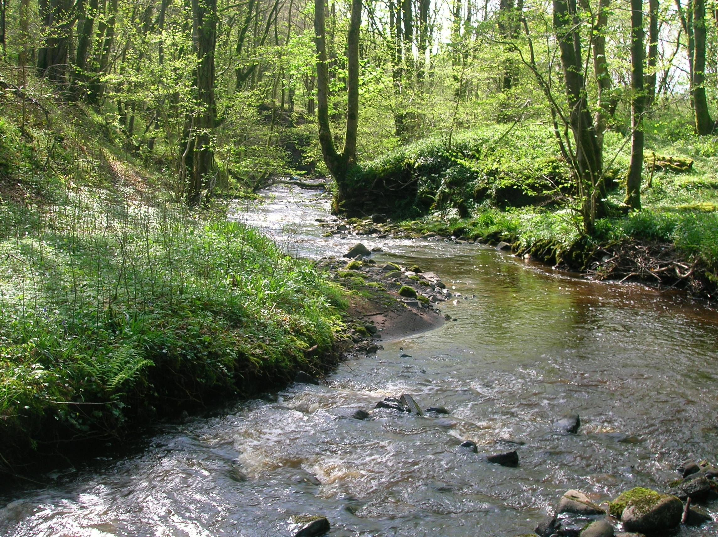 The Burnanne or Burnawn in Bank Wood near Galston, East Ayrshire, Scotland. 2007. Rosser 19:17, 25 April 2007 (UTC)